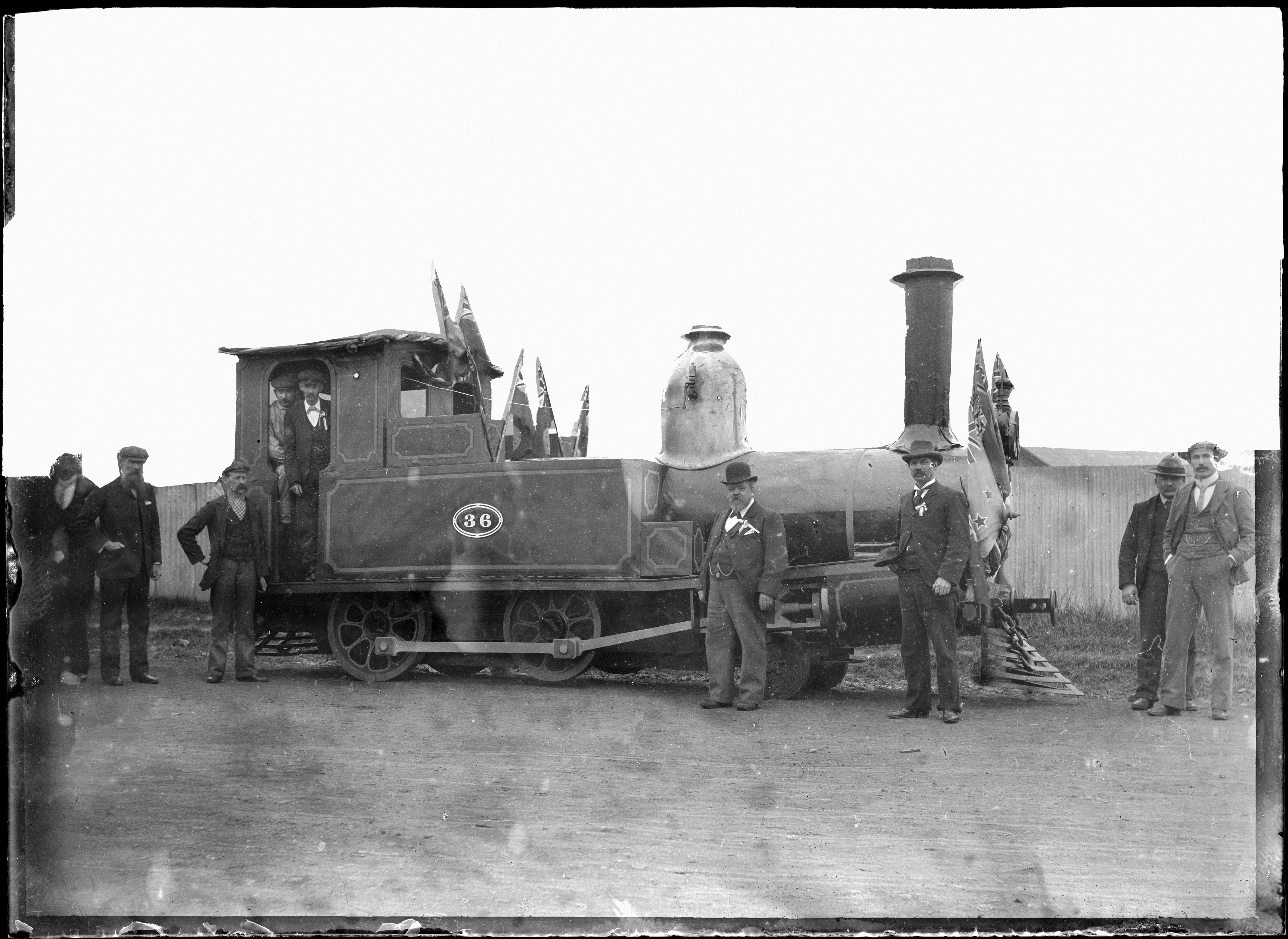 Group of unidentified men standing by a D class locomotive decorated with flags. The locomotive has the maker's number 36 clearly visible on the side. Made by Scott Brothers Ltd., Christchurch in 1887, it went into service in 1888, with the NZR road number 140. Photograph taken by A P Godber. See "Register of New Zealand Railways steam locomotives 1863-1971" (p 47) by W G Lloyd.